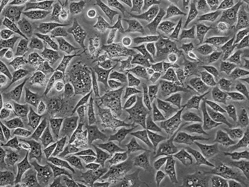 PC3 cells cultured in plastic plate under a phase-contrast microscope